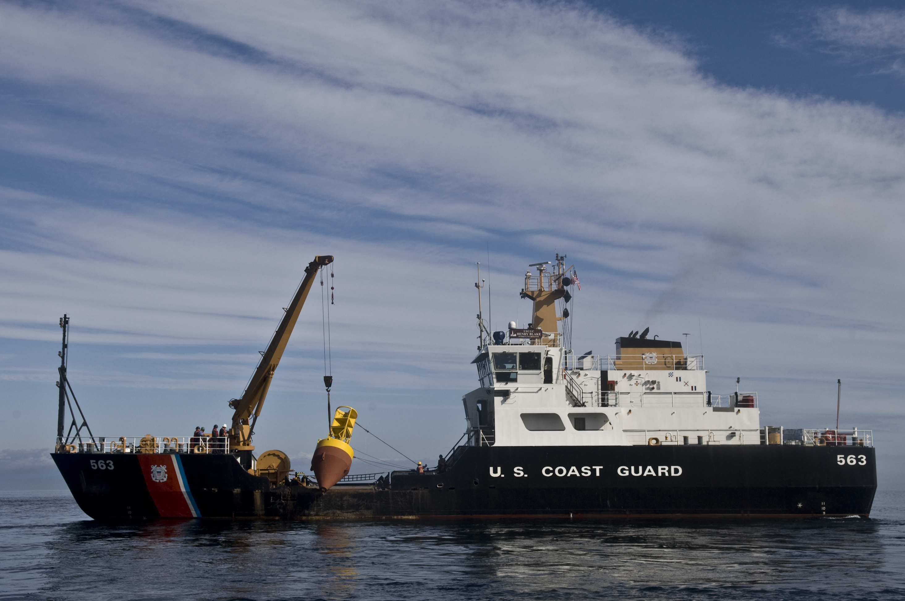 Crew members from the U.S. Coast Guard Cutter Henry Blake (WLM-563) work a Canadian buoy during exercise Pacific Unity 2009.